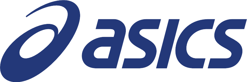 ASICS Corporation logo